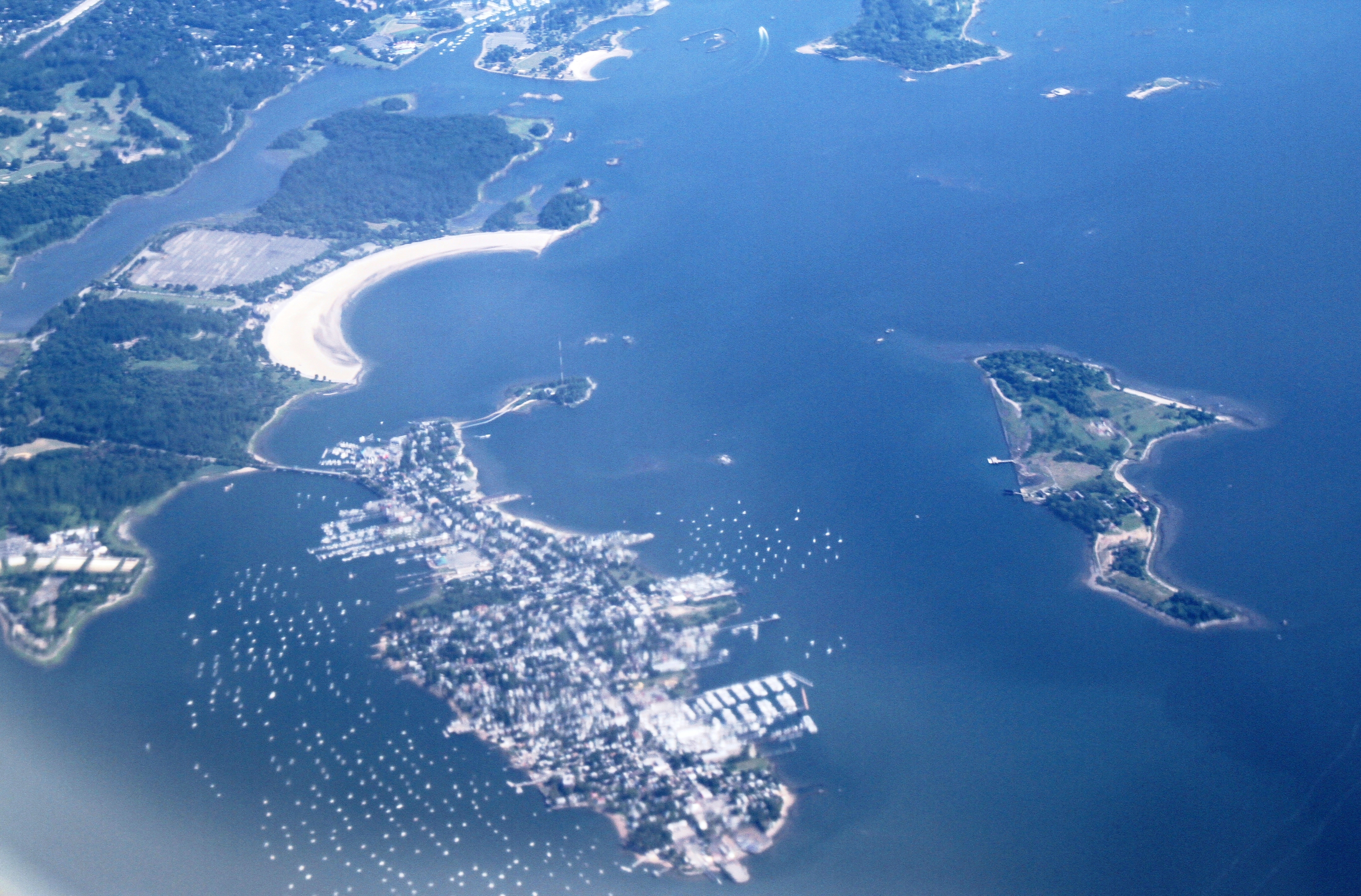 Aerial view of City island and Hart Island, off the coast of Peltam (Bronx), New York. This is northeast of Manhattan.